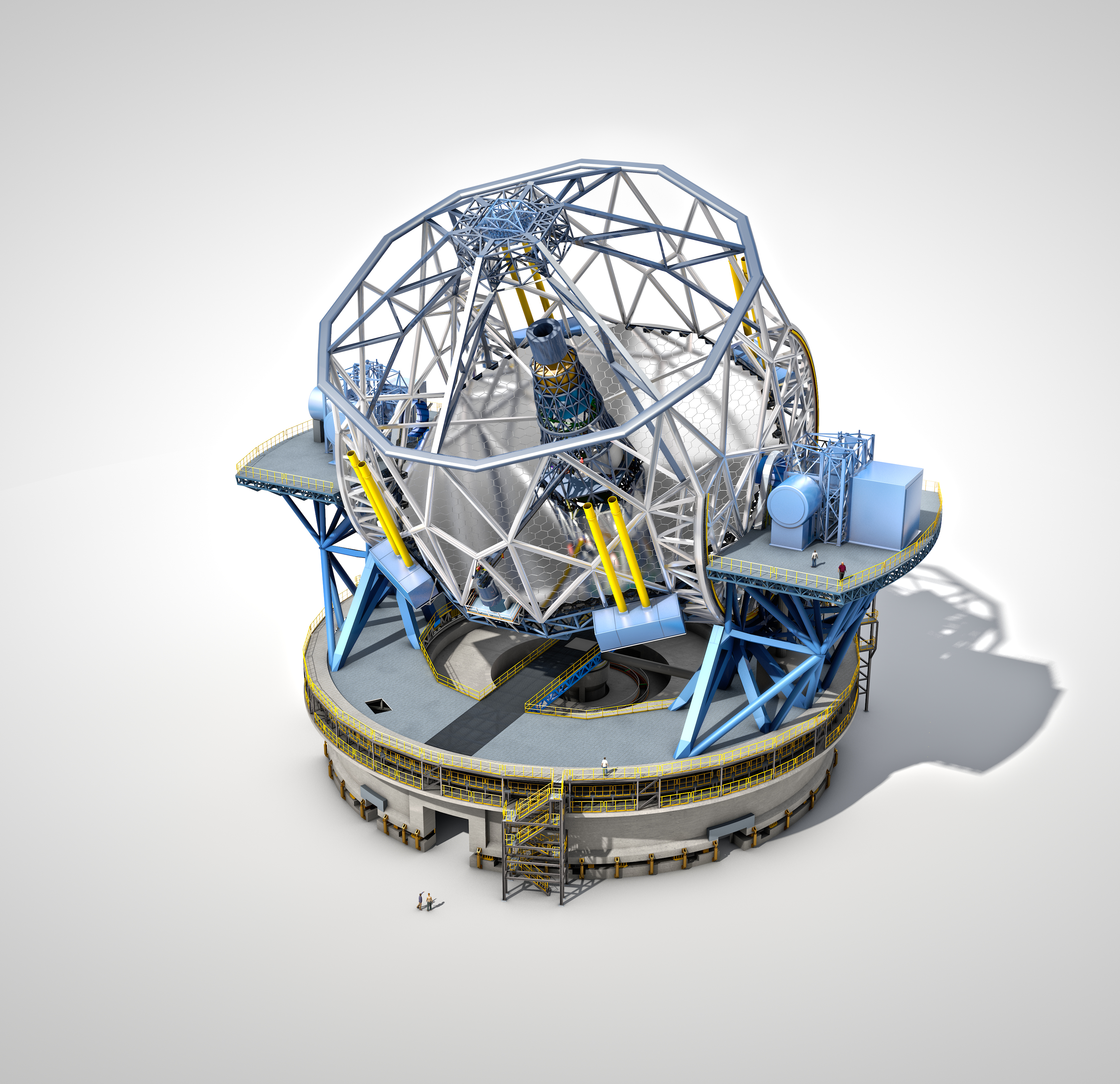 The European Extremely Large Telescope (E-ELT), with a main mirror 39 metres in diameter, will be the world’s biggest eye on the sky when it becomes operational early in the next decade. The E-ELT will tackle the biggest scientific challenges of our time, and aim for a number of notable firsts, including tracking down Earth-like planets around other stars in the “habitable zones” where life could exist — one of the Holy Grails of modern observational astronomy. The telescope design itself is revolutionary and is based on a novel five-mirror scheme that results in exceptional image quality. The primary mirror consists of almost 800 segments, each 1.4 metres wide, but only 50 mm thick. The optical design calls for an immense secondary mirror 4.2 metres in diameter, bigger than the primary mirrors of any of ESO's telescopes at La Silla. Adaptive mirrors are incorporated into the optics of the telescope to compensate for the fuzziness in the stellar images introduced by atmospheric turbulence. One of these mirrors is supported by more than 6000 actuators that can distort its shape a thousand times per second. The telescope will have several science instruments. It will be possible to switch from one instrument to another within minutes. The telescope and dome will also be able to change positions on the sky and start a new observation in a very short time. The very detailed design for the E-ELT shown here is preliminary.